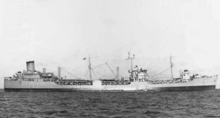 Fleet replenishment oiler USS Passumpsic (AO-107) as built.